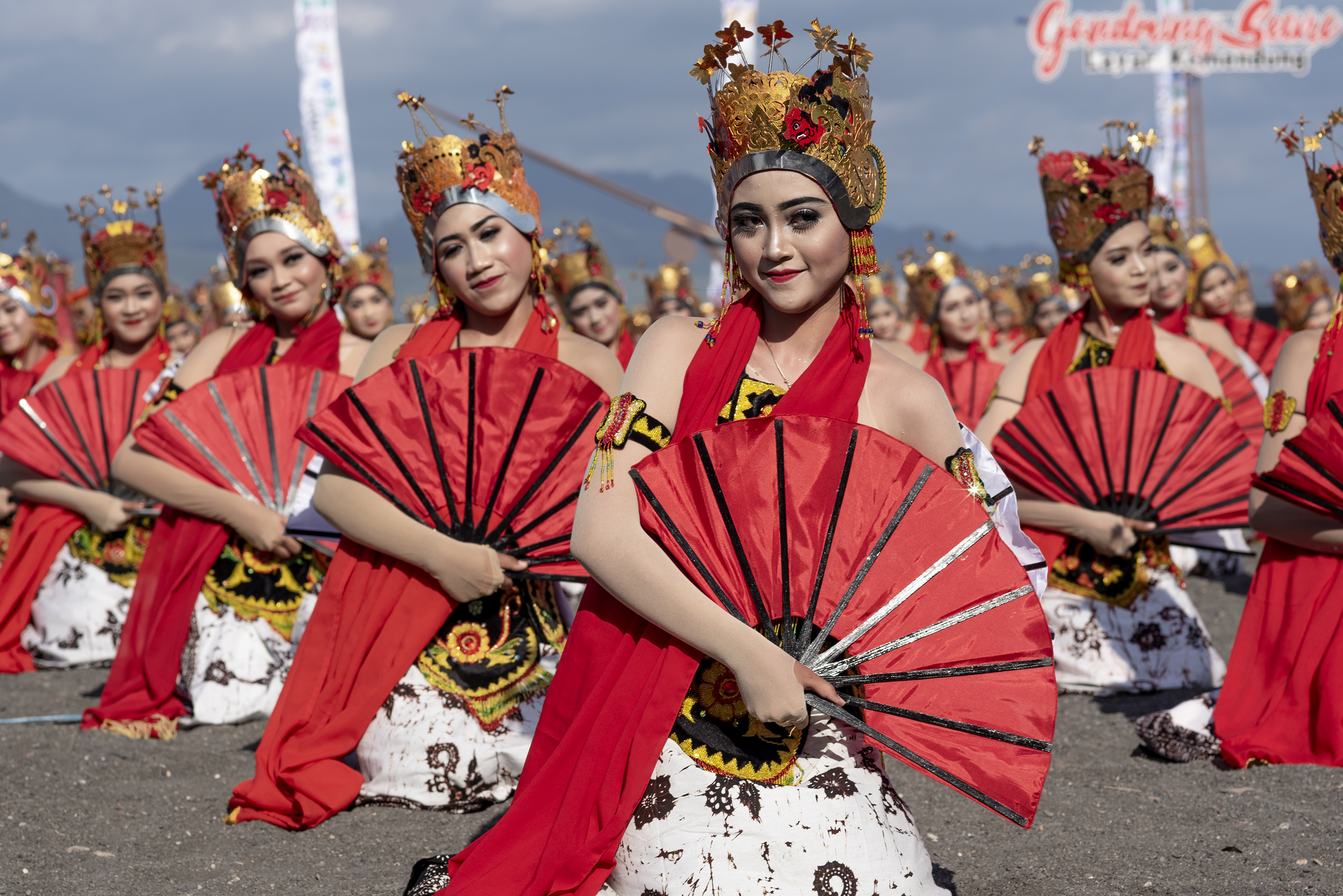 Gandrung dance performed in Banyuwangi